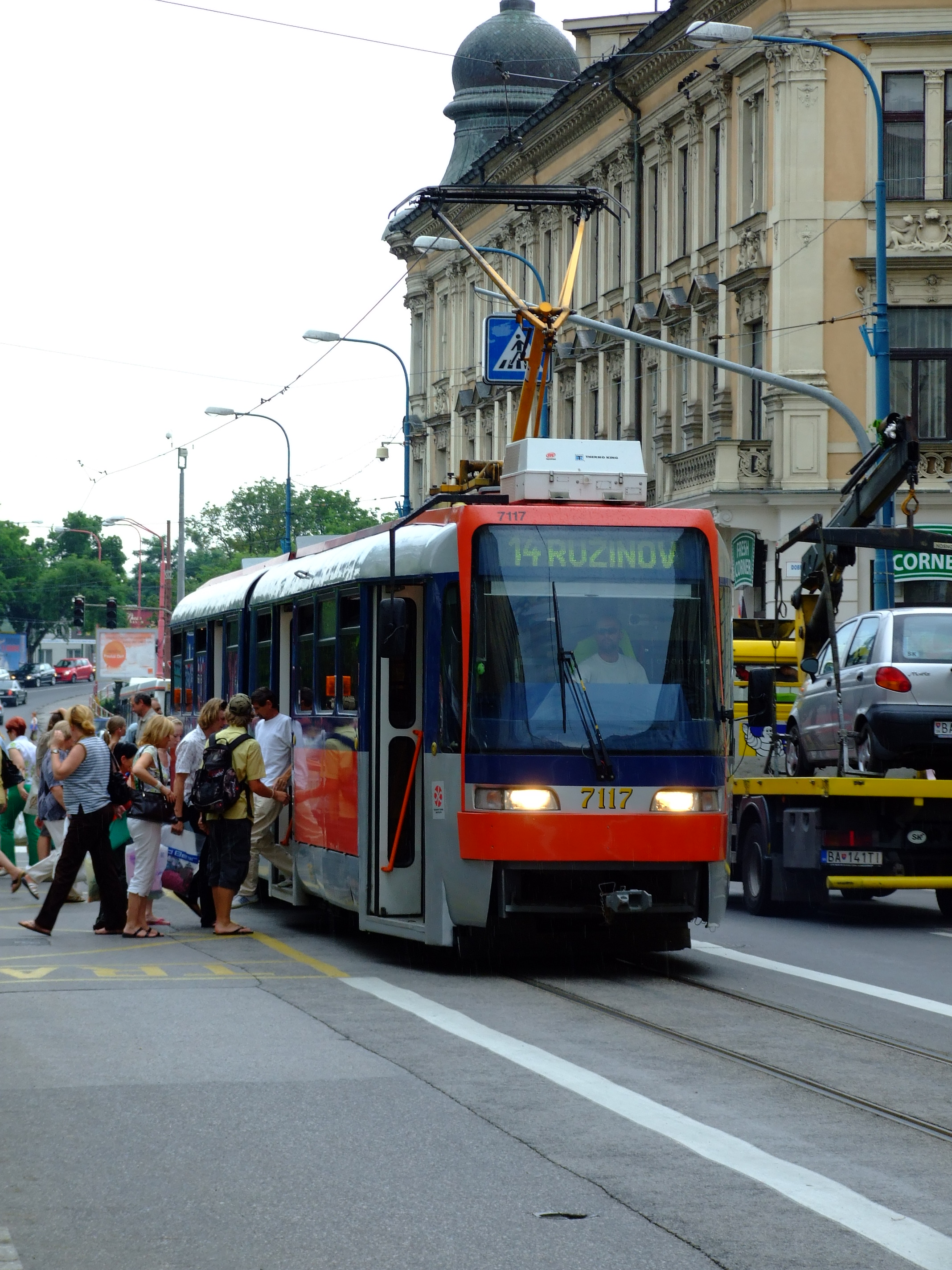 Public transport tram Tatra K2S in Bratislava, SK